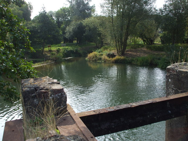 The River Rother at Coultershaw Bridge, Pump House